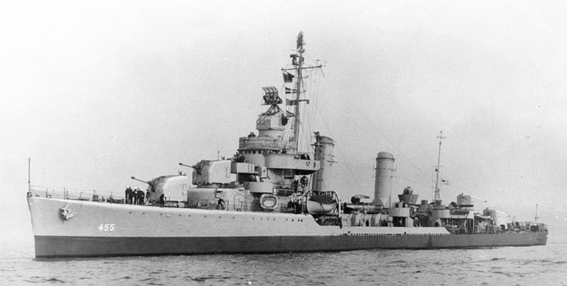 The U.S. Navy destroyer USS Hambleton (DD-455) underway in February 1944. Hambleton was repaired between 28 June 1943 and early 1944 at the Boston Navy Yard, Massachusetts (USA), following a torpedo hit on 11 November 1942.